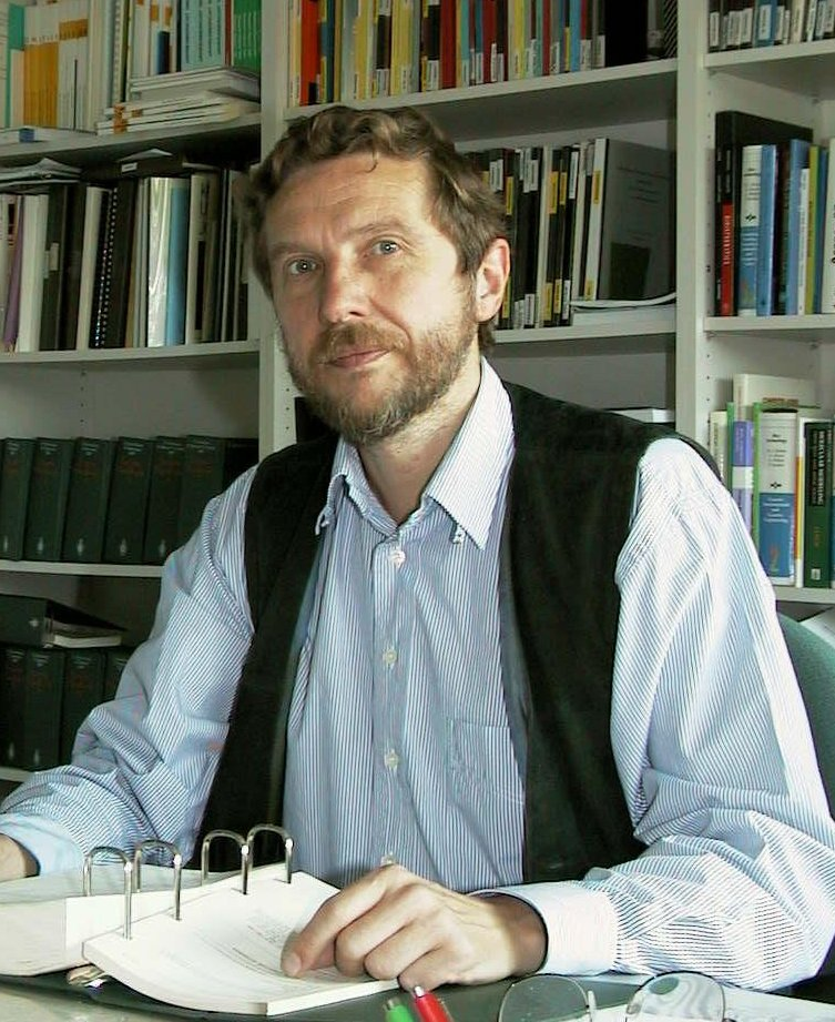 Dietmar Schomburg (* 21. April 1950 in Braunschweig)